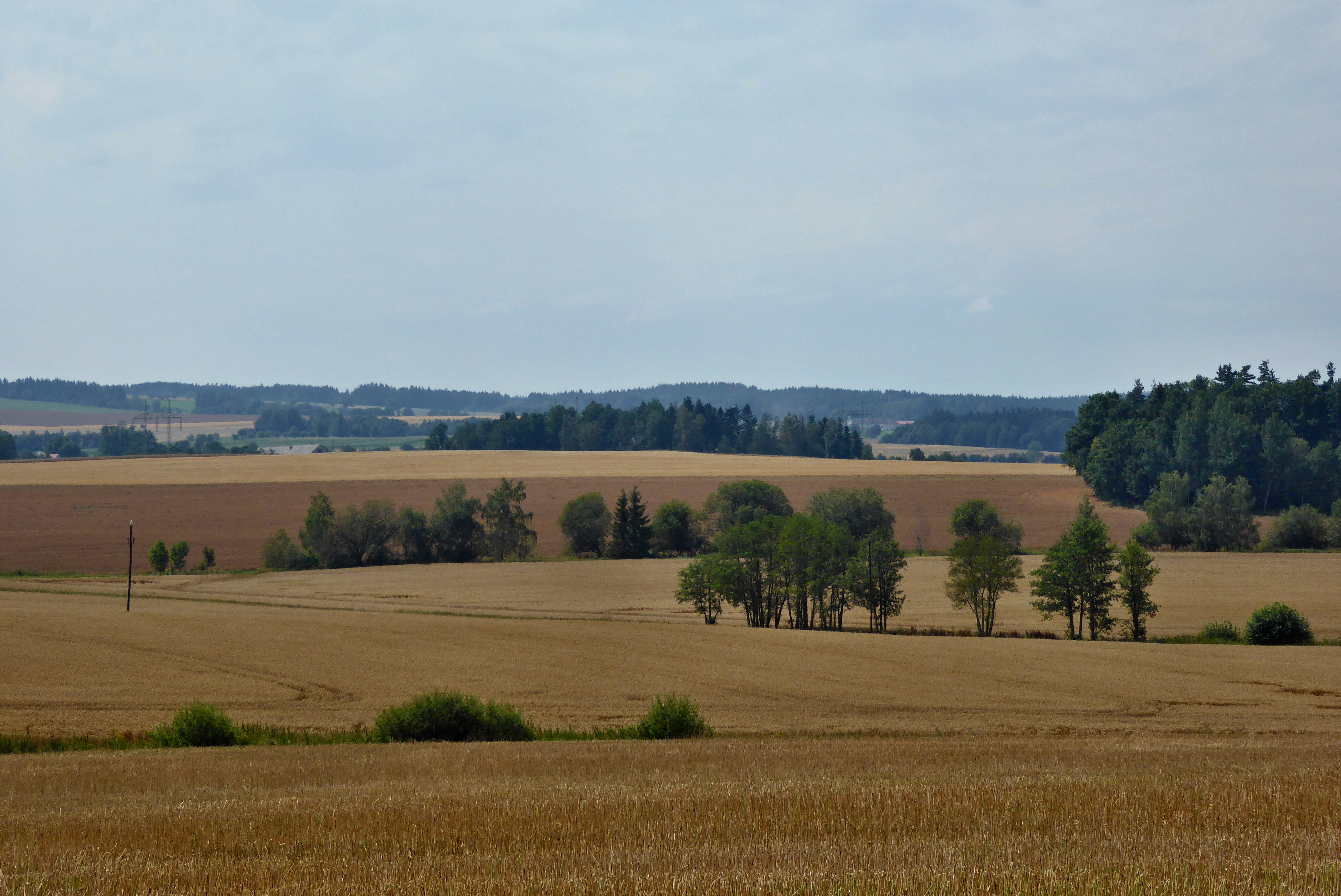 Czech landscape: „Skutečská pahorkatina" (geomorphological unit). Image the landscape in locality Krouna in the Czech Republic.